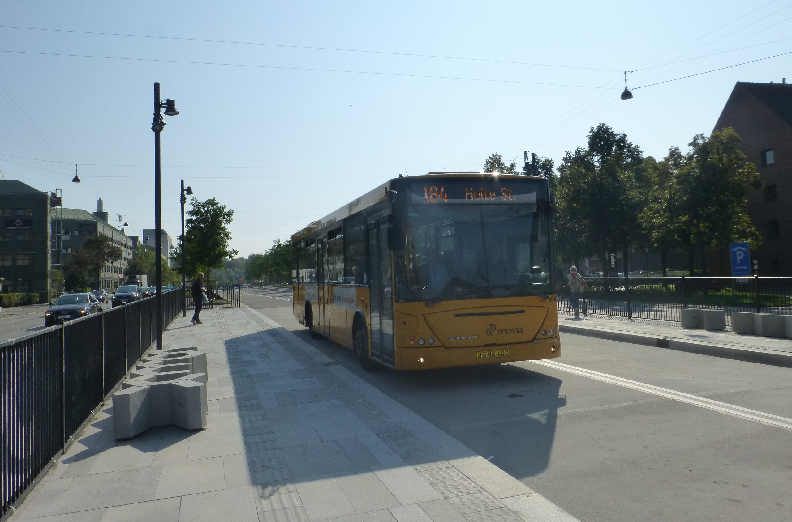 Den kvikke vej (the quick way), a bus rapid transit between Fredensbro and Lyngbyvej in Østerbro in Copenhagen. The first bus heading north, a Movia bus line 184 on Lyngbyvej at Haraldsgade.